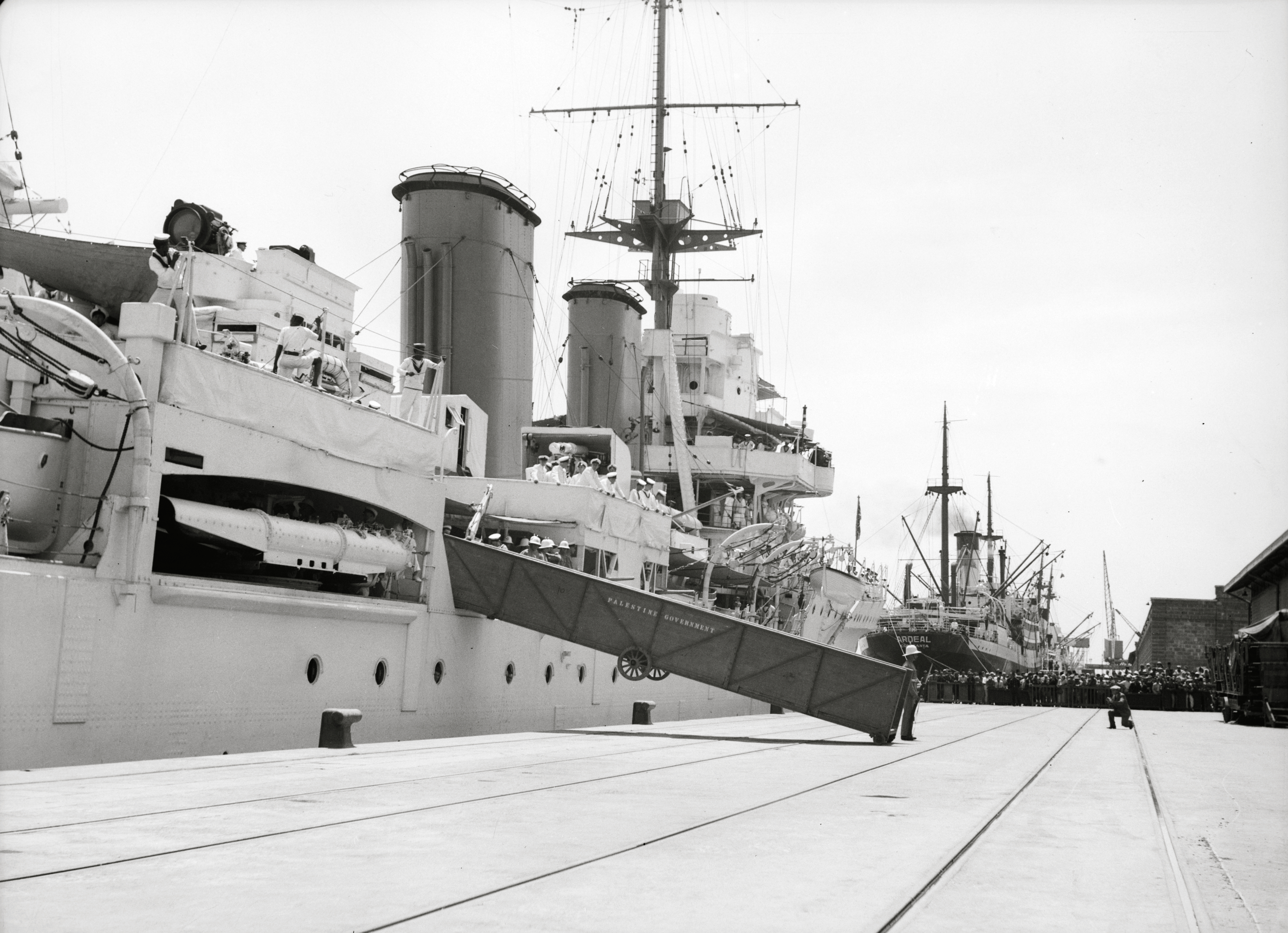 British light cruiser HMS Enterprise in Haifa Original title: Arrival of the Negus to Haifa Summary: Photo shows the family of Ethiopian Emperor Haile Selassie I arriving at Haifa on the British ship, the H.M.S. Enterprise, May 8, 1936.